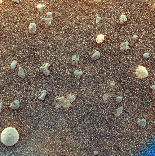 Martian spherules on the ground as seen by the rover Opportunity. This magnified look at the martian soil near the Mars Exploration Rover Opportunity's landing site, Meridiani Planum, shows coarse grains sprinkled over a fine layer of sand. The image was captured on the 10th day, or sol, of the rover's mission by its microscopic imager, located on the instrument deployment device, or "arm." Scientists are intrigued by the spherical rocks, which can be formed by a variety of geologic processes, including cooling of molten lava droplets and accretion of concentric layers of material around a particle or "seed." The examined patch of soil is 3 centimeters (1.2 inches) across. The circular grain in the lower left corner is approximately 3 millimeters (.12 inches) across, or about the size of a sunflower seed. This stretched color composite was obtained by merging images acquired with the orange-tinted dust cover in both its open and closed positions. The varying hints of orange suggest differences in mineral composition. The blue tint at the lower right corner is a tag used by scientists to indicate that the dust cover is closed.